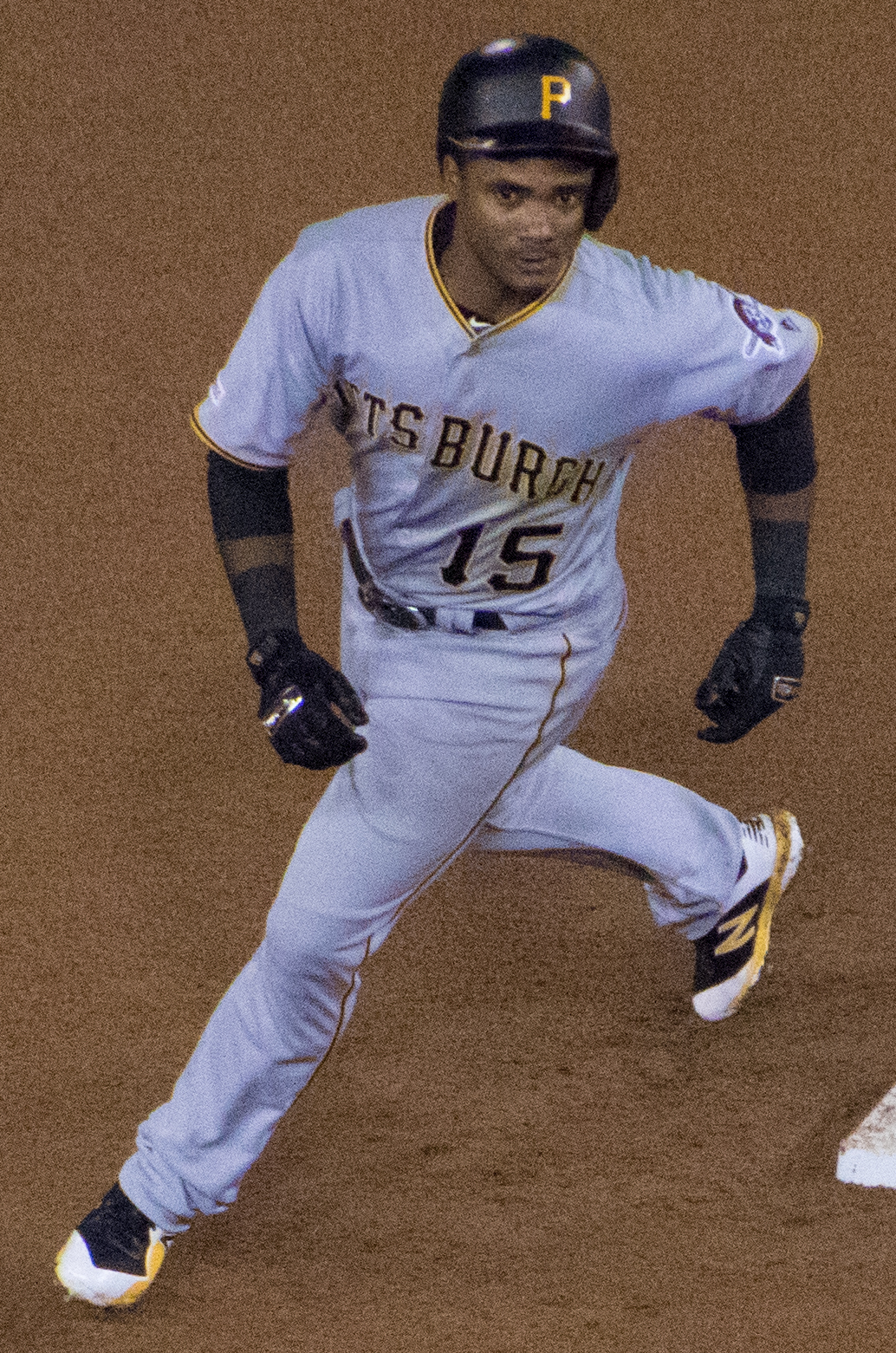 Pablo Reyes of the Pittsburgh Pirates rounds second base during an April 2019 game at Nationals Park in Washington, D.C.